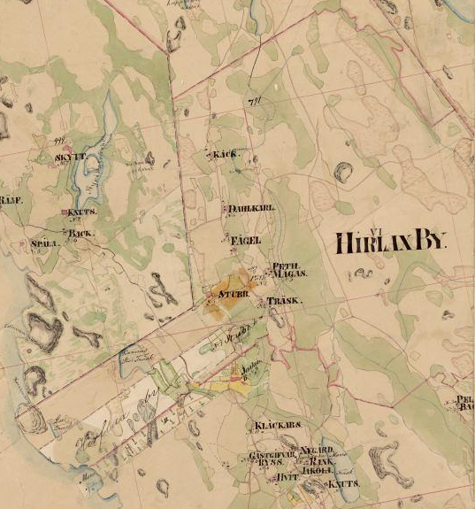 Cropped map of Hirvlax from 1845